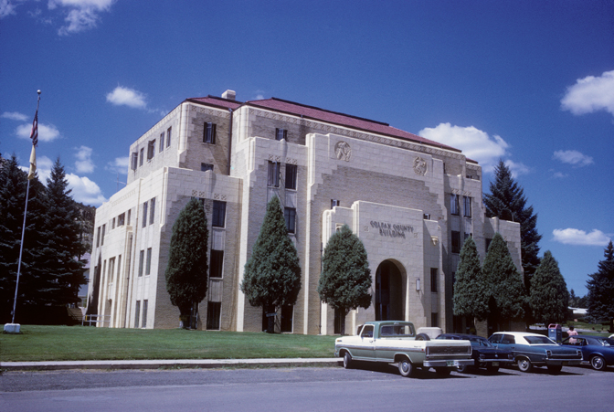 Photograph of Colfax County Courthouse, Raton, Colfax County, New Mexico